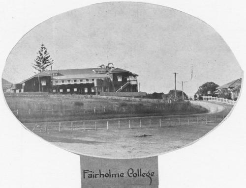 Image title:Fairholme College, Toowoomba, 1932.Description: Building of Fairholme College, 1932.